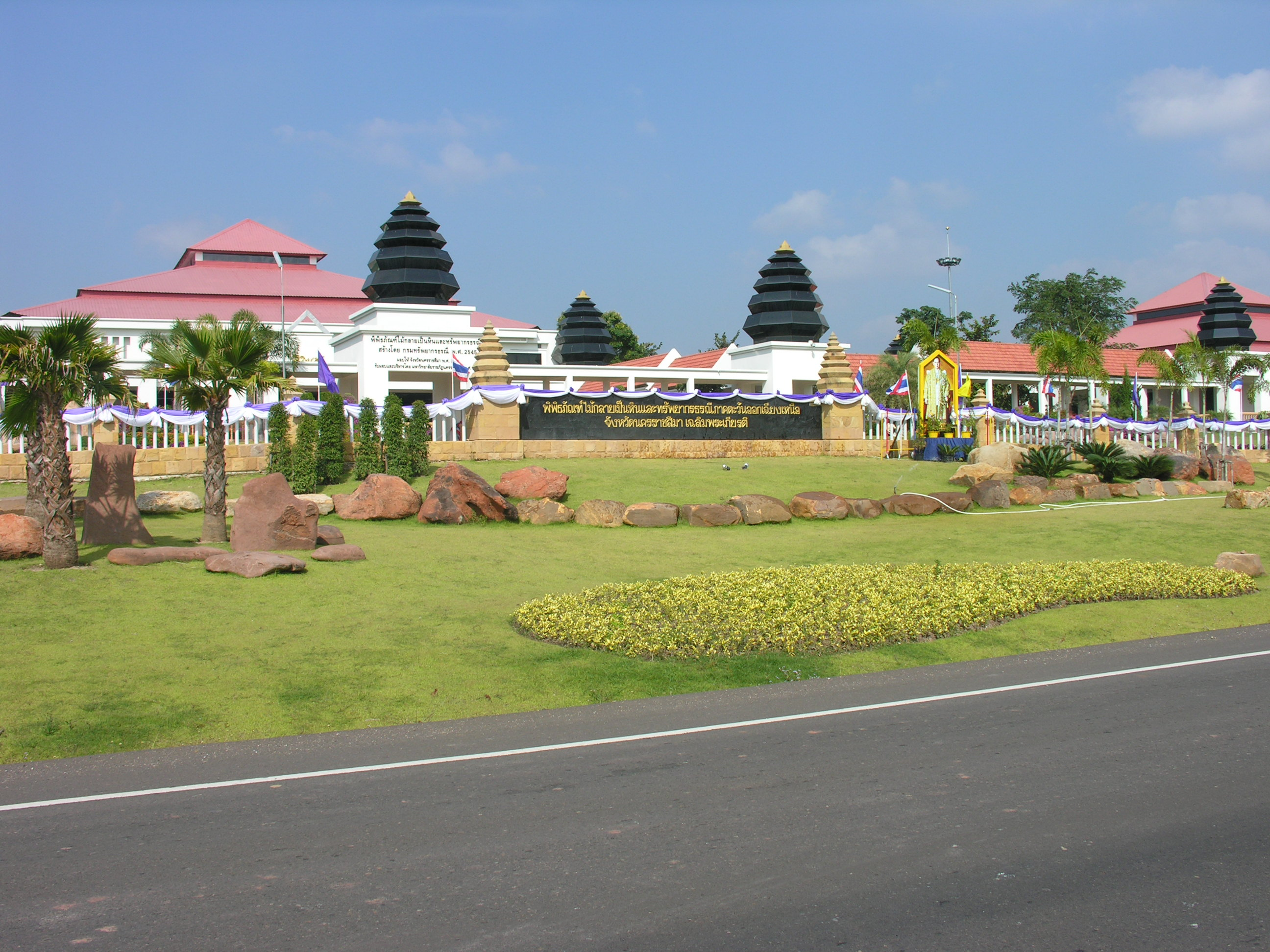 A petrified wood museum in Nakhon Ratchasima province, northeastern Thailand